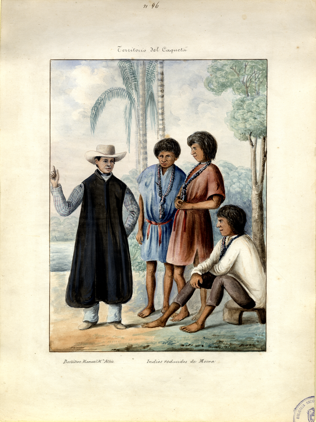 Priest Manuel M. Albis, with Converted Mocoa Indians, Caquetá Territory